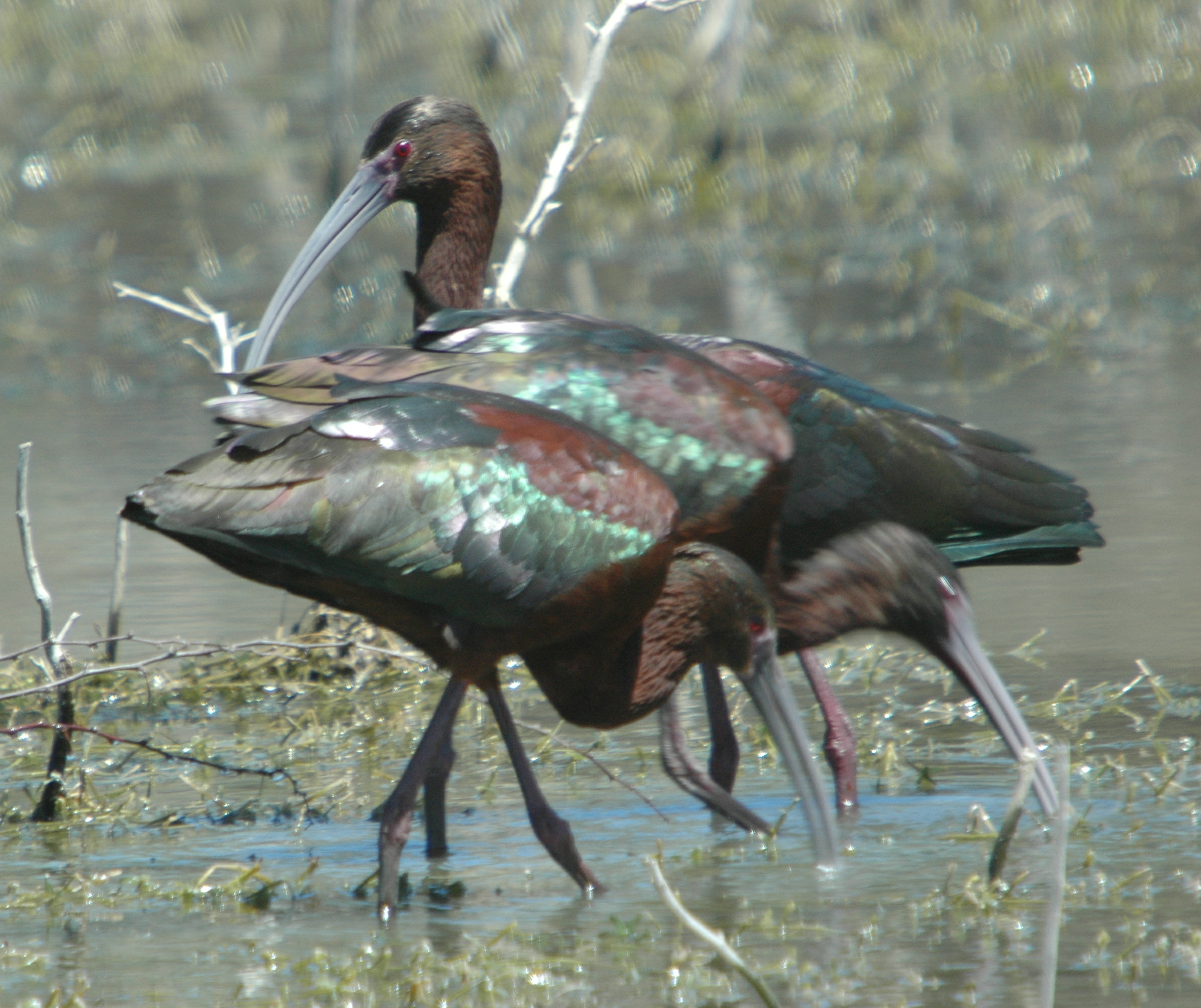 White-faced Ibis (Plegadis chihi), Amistad National Recreational Area, Del Rio, Texas, USAWhite-faced Ibis